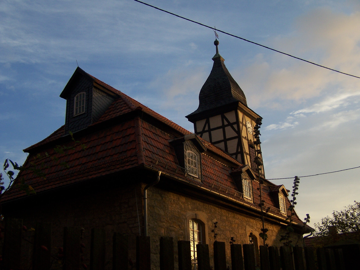 The church in Pferdsdorf/Werra village.